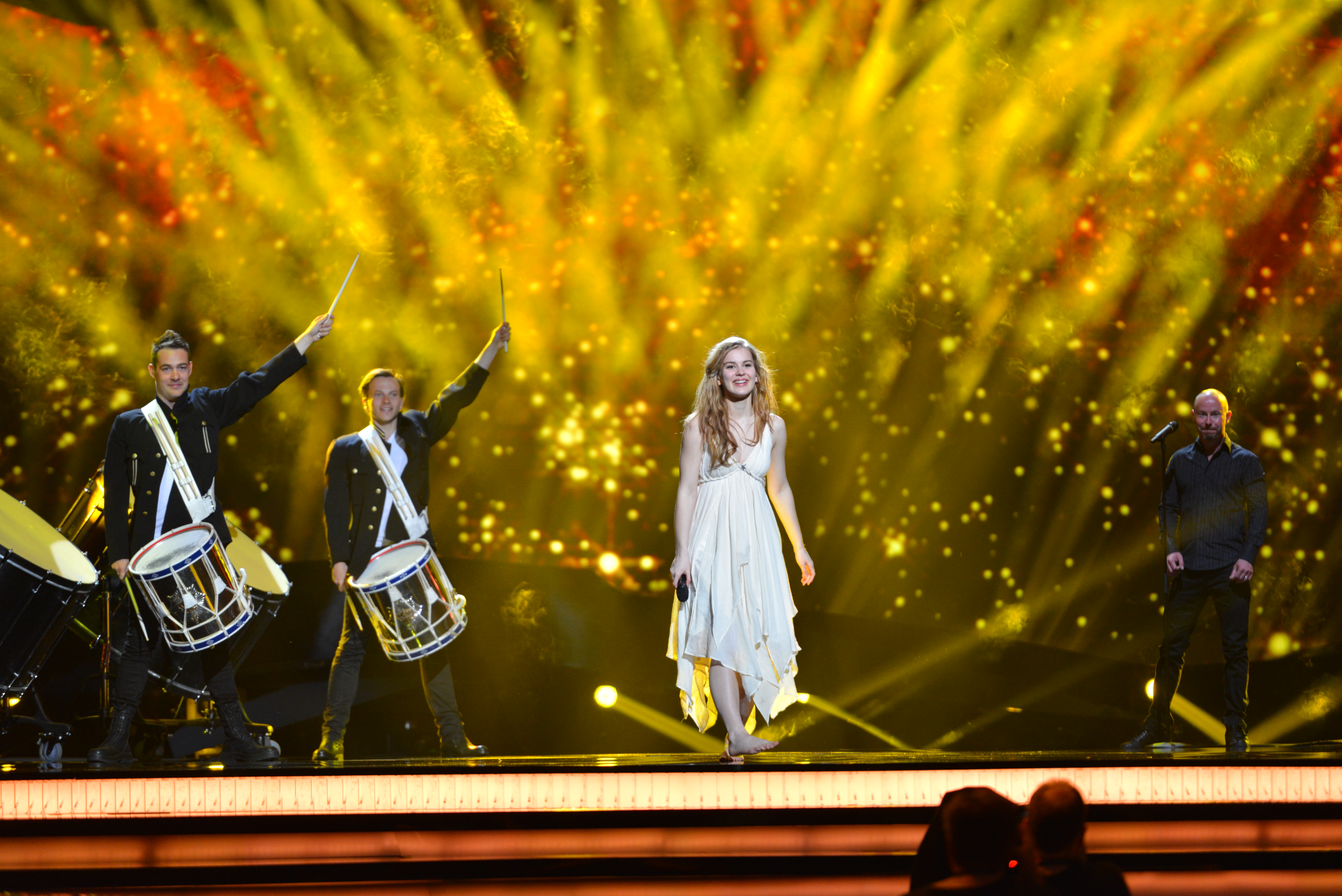 Emmelie de Forest representing Denmark with the song "Only Teardrops" during the first dress rehearsal of the final of the Eurovision Song Contest 2013 in Malmö. (Help translate this text)